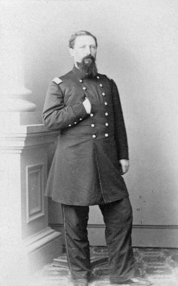 Colonel William E. Woodruff, 2d Kentucky Infantry, full-length portrait, standing, facing right. From the Library of Congress (between 1861 and 1865)